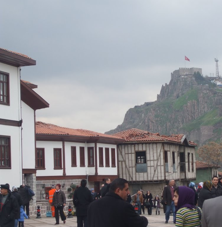 Hacıbayram, Ankara Castle